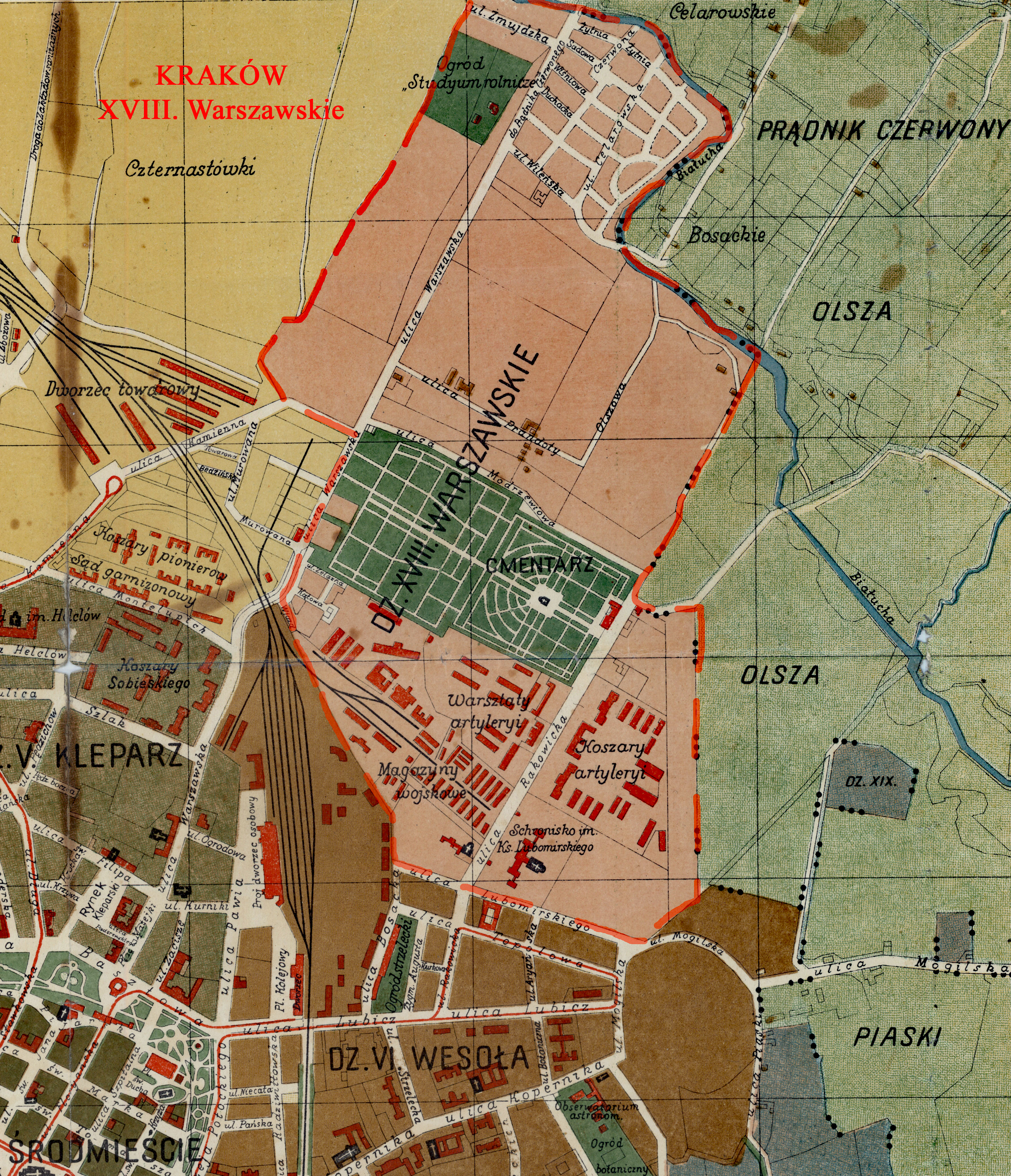 Warszawskie District of Cracow in 1916